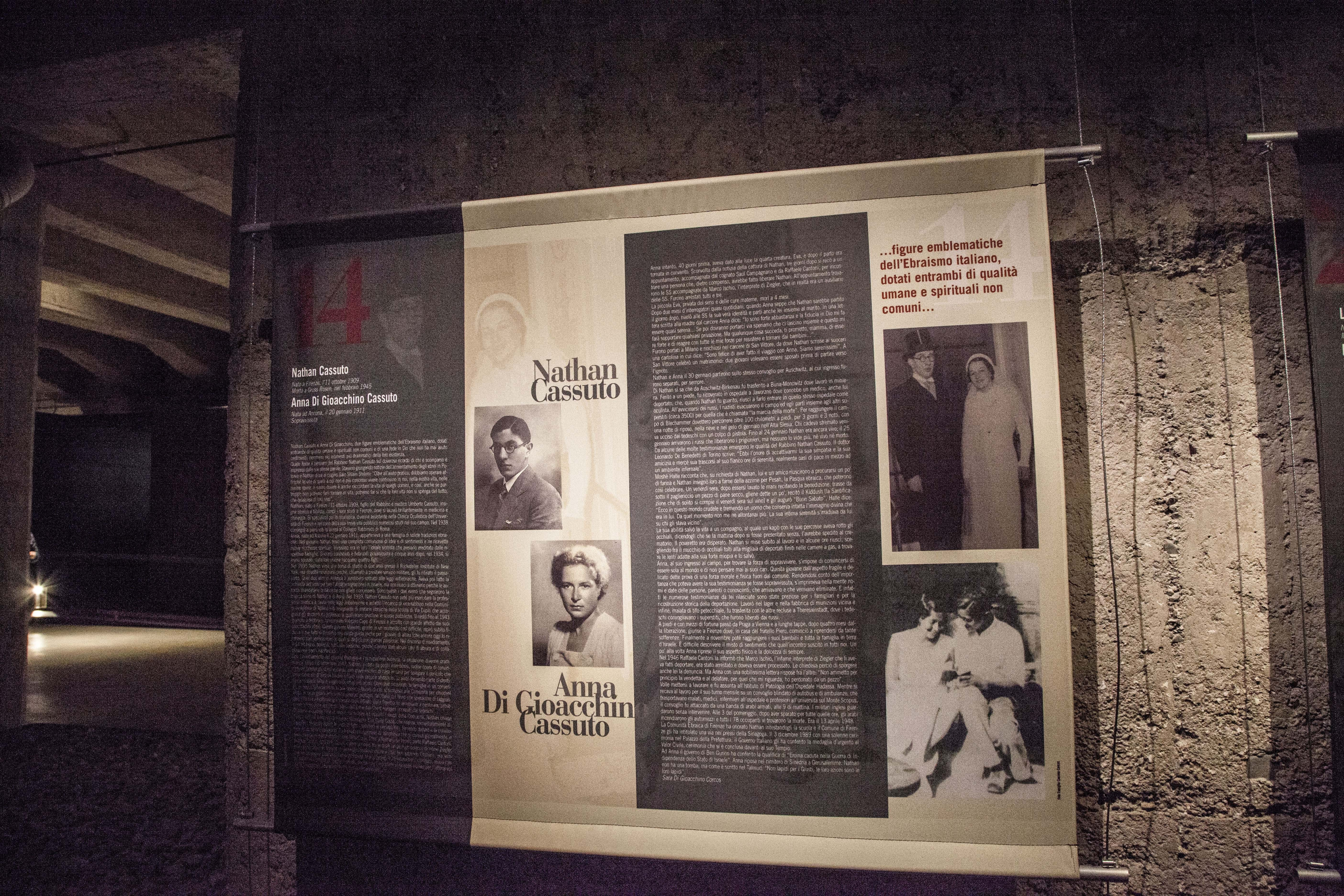 שדשכגעכגעג